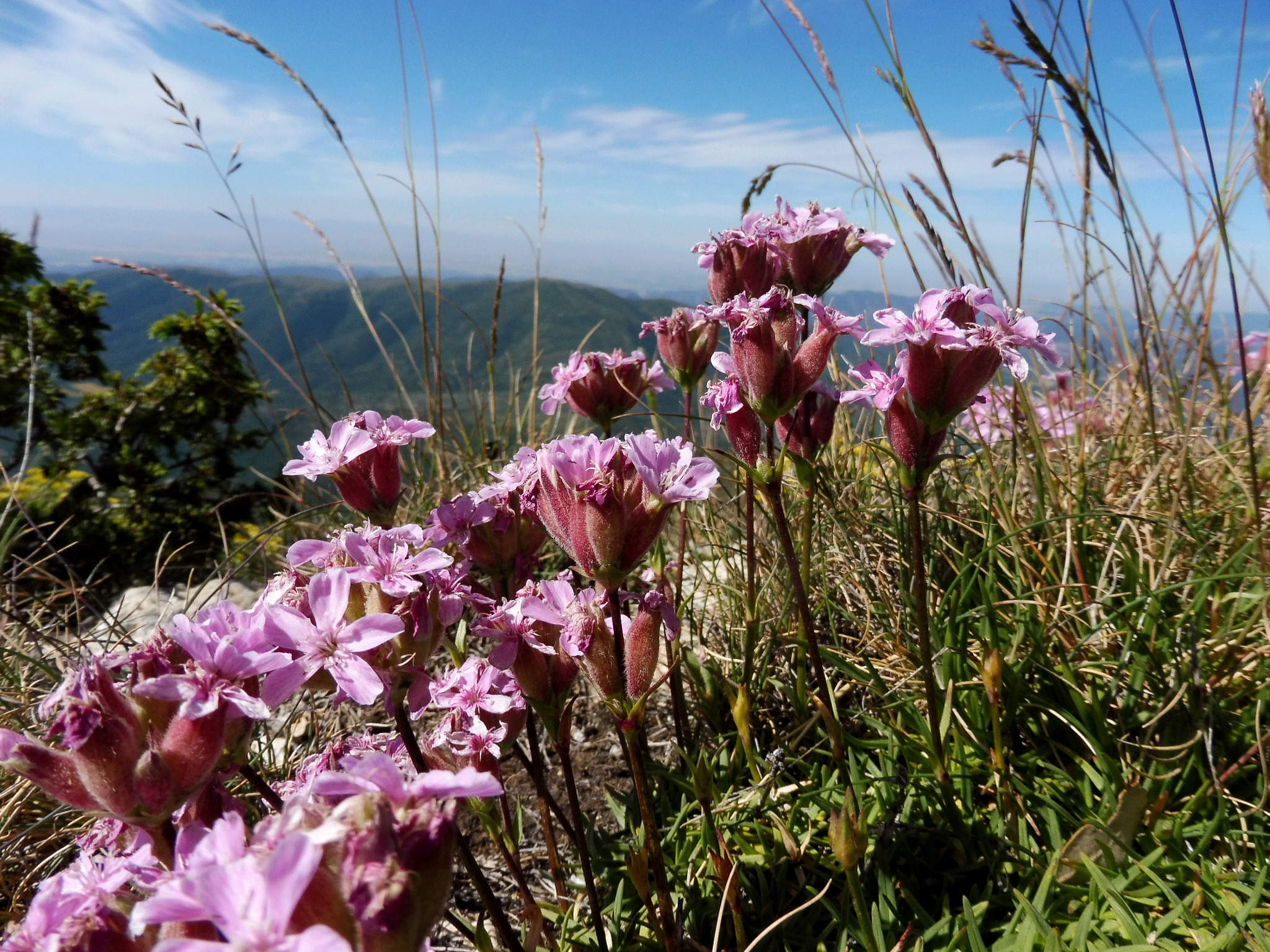 Saponaria caespitosa. In Montsec de Rúbies (Pallars Jussà- Catalunya). To 1.670 m. altitude This is a a photo of a natural area in Catalonia, Spain, with id: ES510192